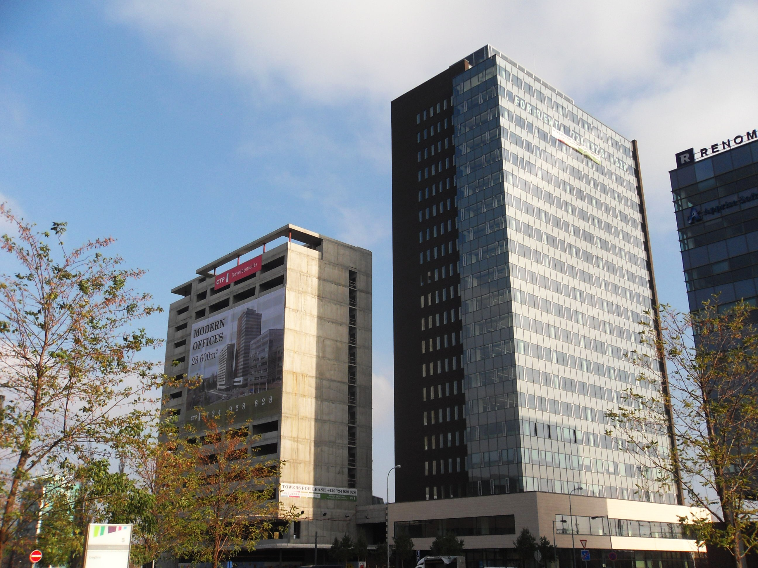 Spielberk Tower A and Tower B, Brno, Czech Republic